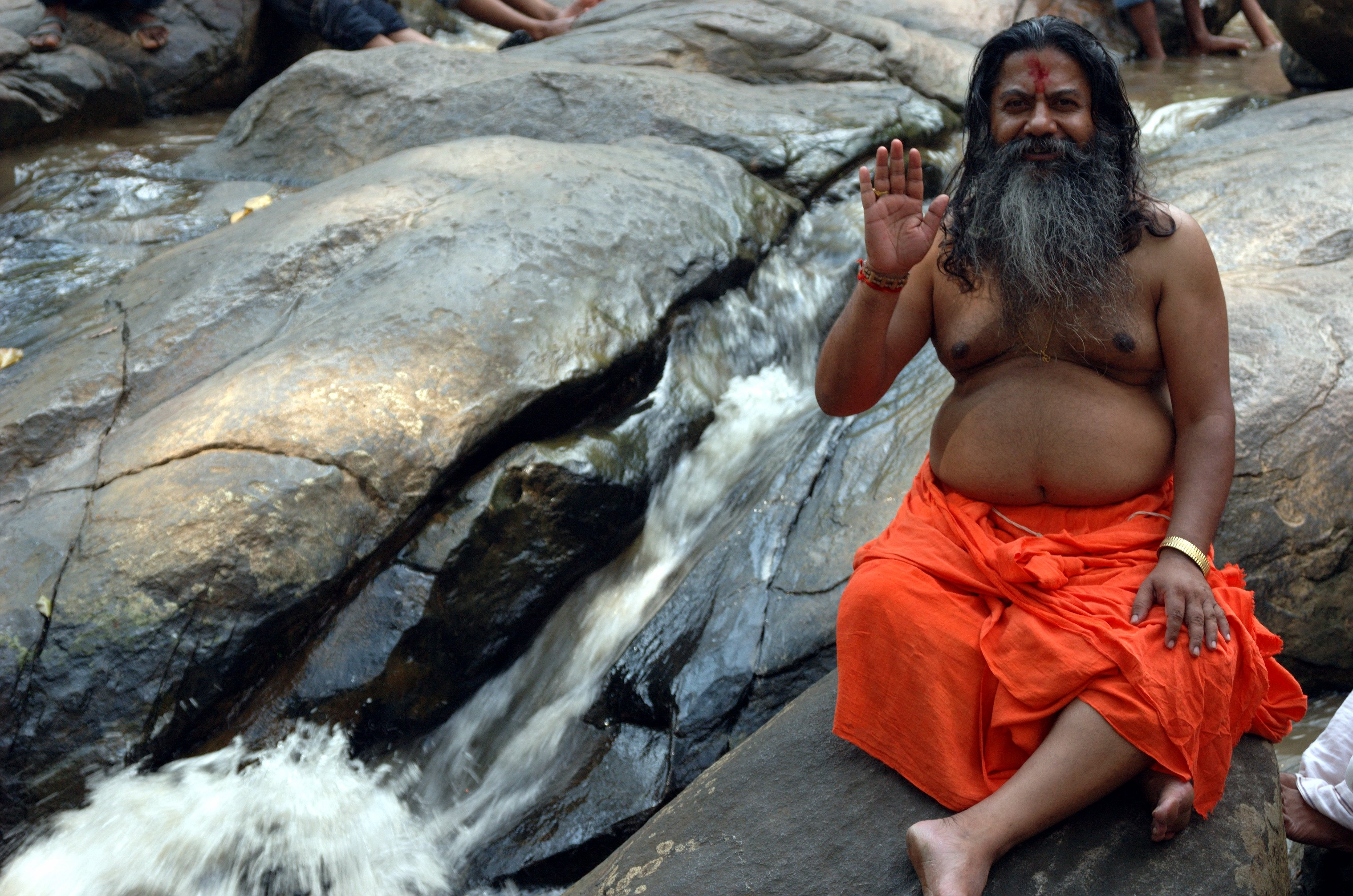 A sadhu at Vashista Ashram in Guwahati, Assam, India.